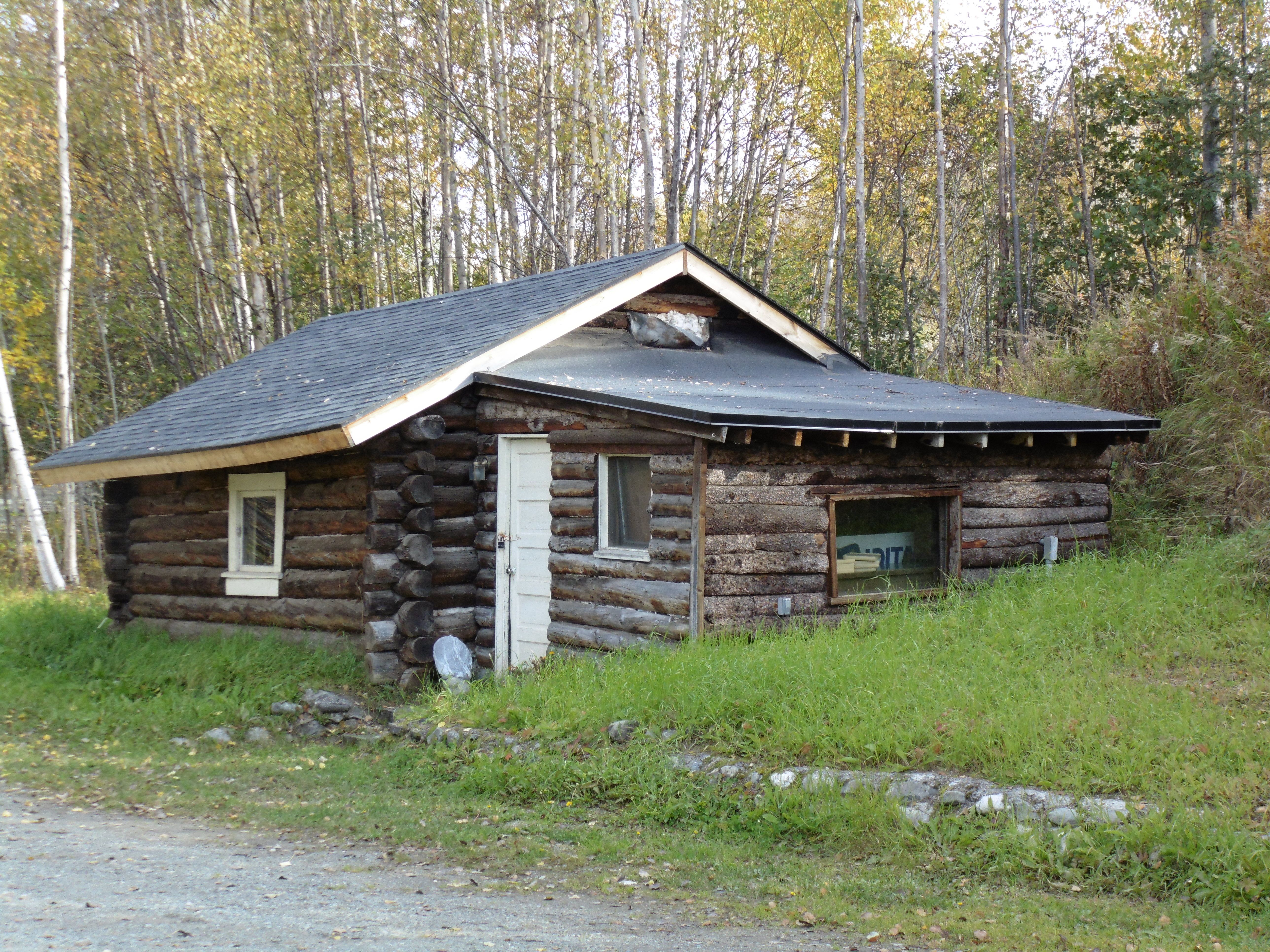 Knik Site, About 15 miles southwest of Wasilla on Knik Rd. Wasilla